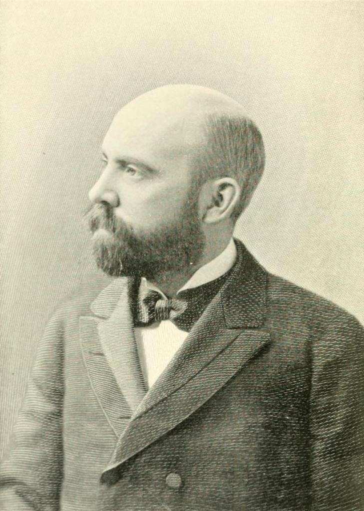 Frank Moss (1860-1920), President of the Society of the Prevention of Crime